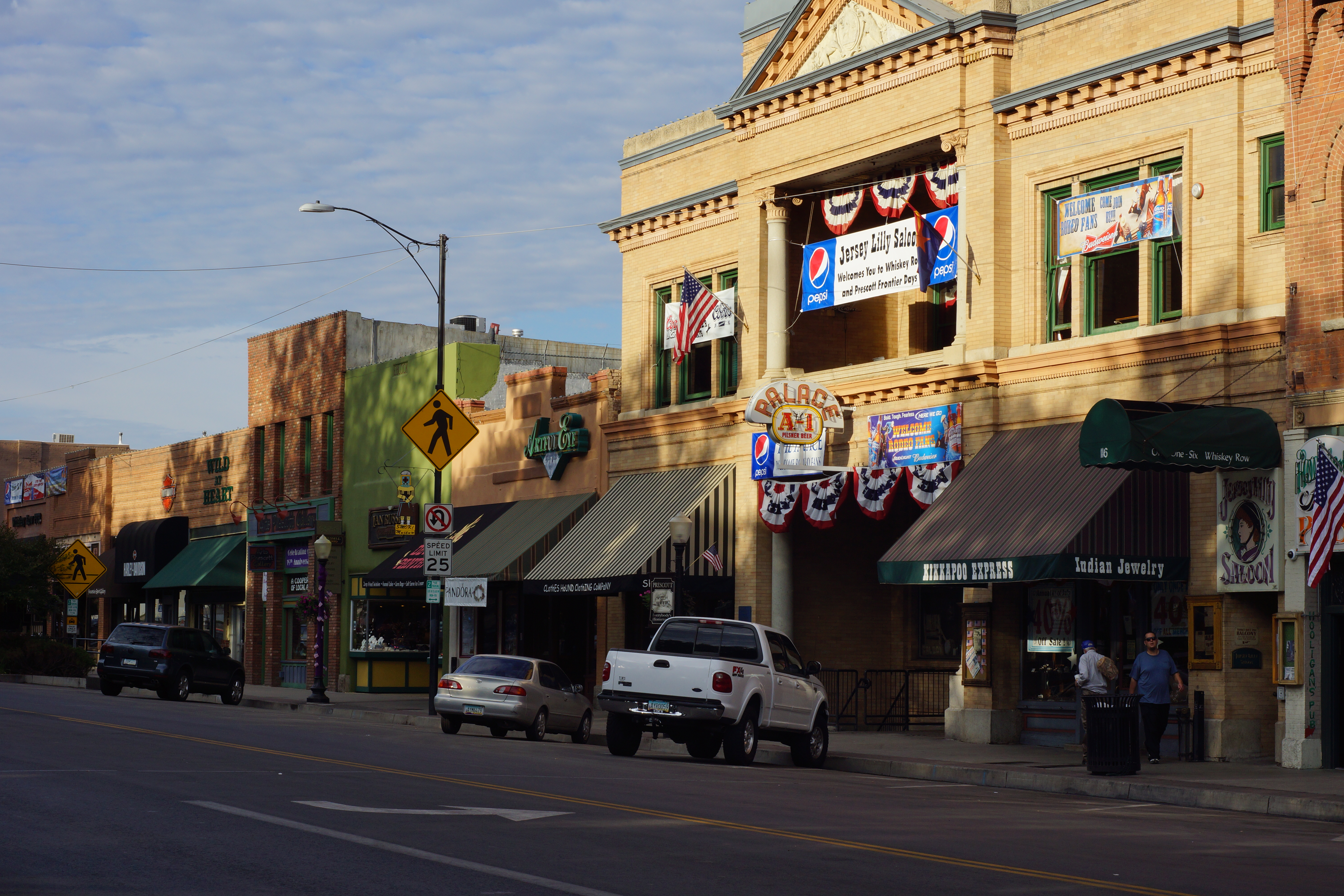 Whiskey Row After Prescott Days 2013